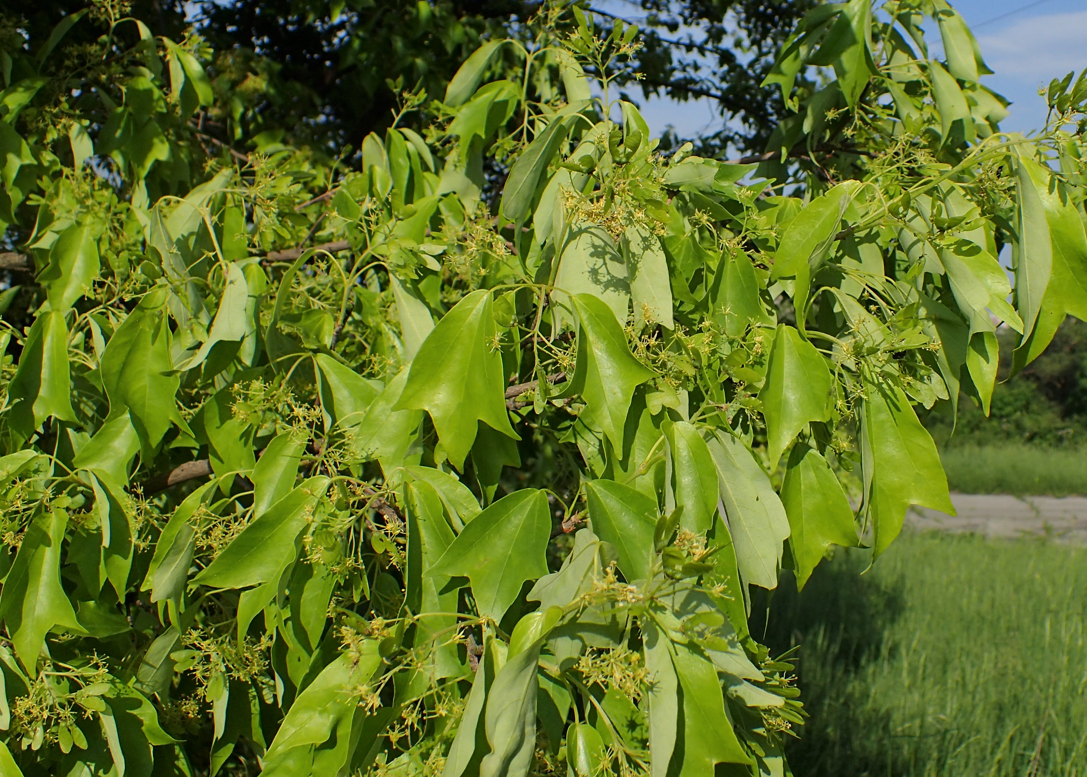 Acer buergerianum in botanical garden of the Bulgarian Academy of Sciences